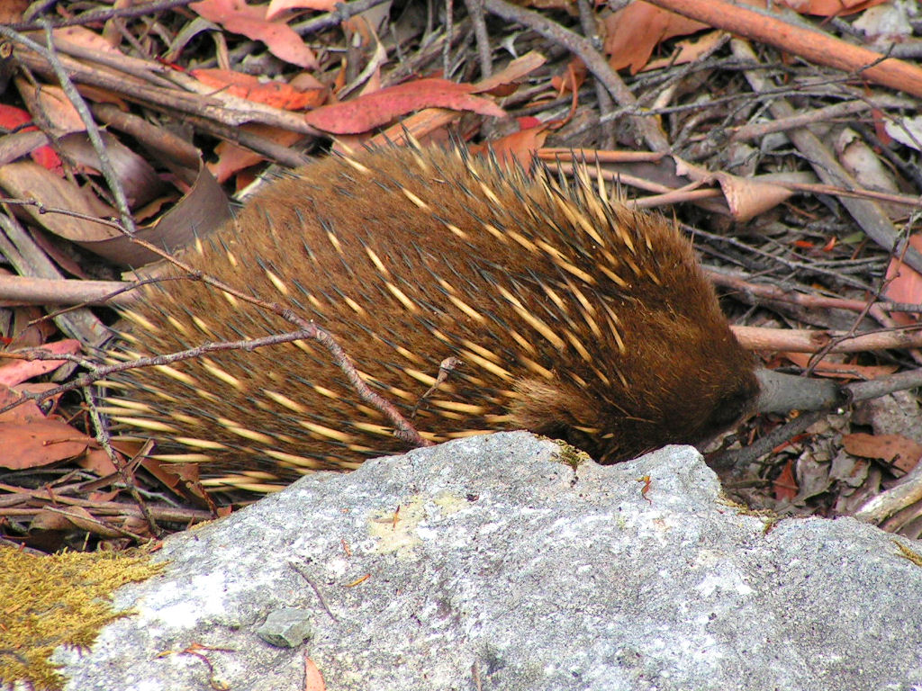 Short-beaked Echidna (Tachyglossus aculeatus setosus), near Barrington, Tasmania, Australia